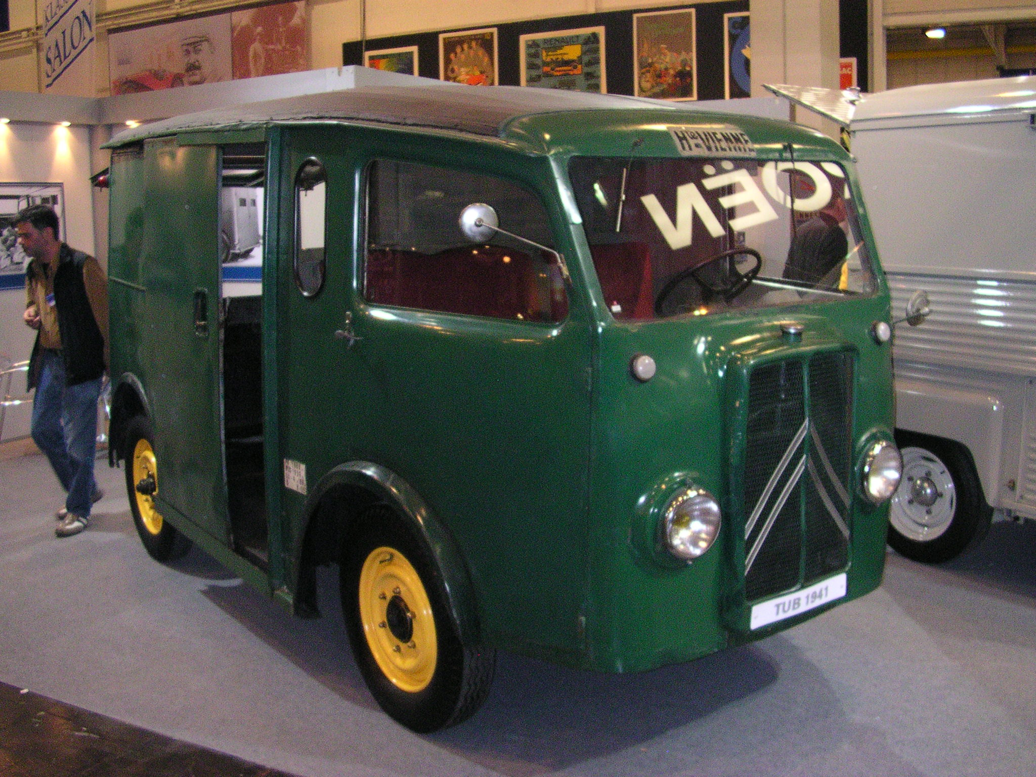 Essen Techno-Classica 2007, Citroën TUB